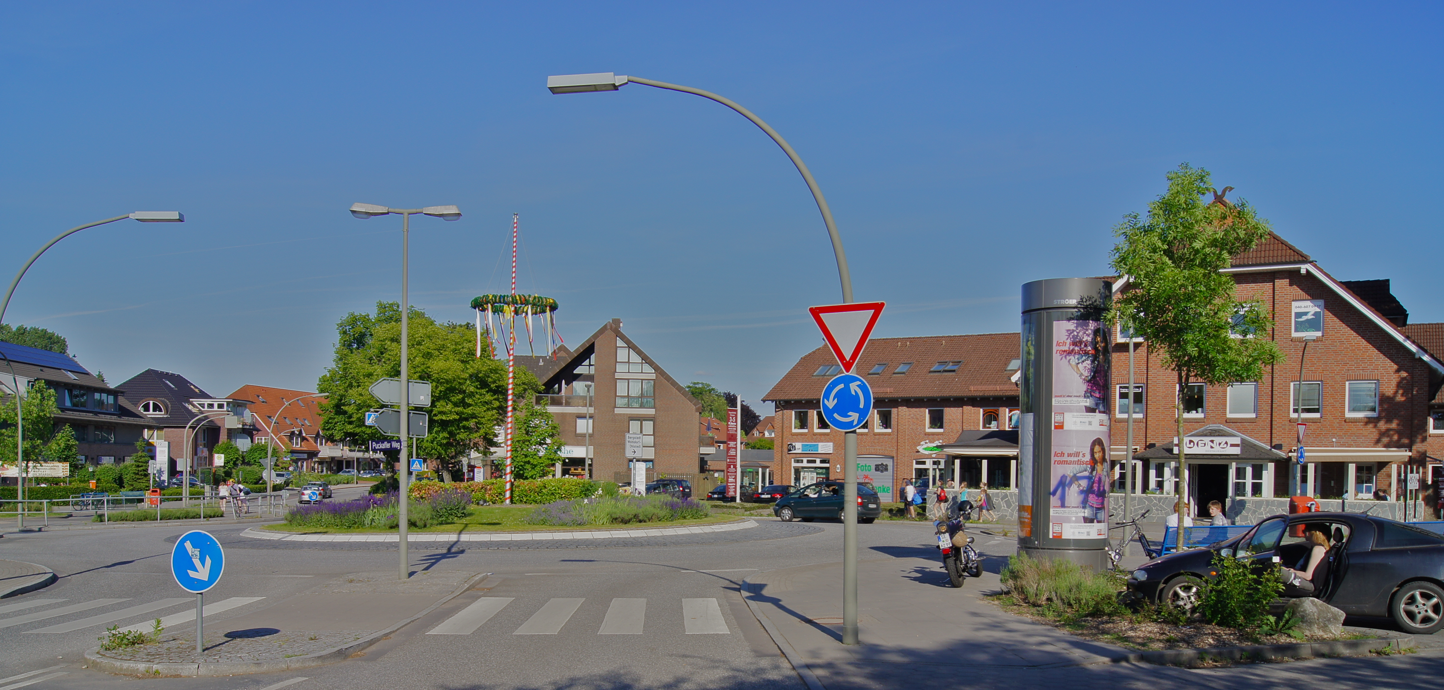 Hamburg (Duvenstedt), Germany: Central Roundabout